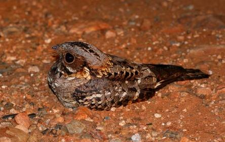 A Fiery-necked Nightjar near Polokwane in Limpopo Province, South Africa